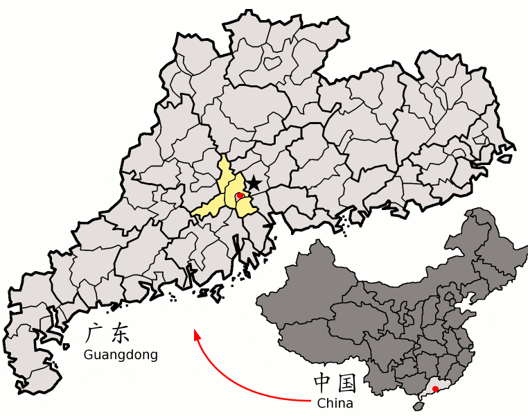 Location of Foshan city (red), Chancheng district (pink) and Foshan prefecture (yellow) within Guangdong province of China